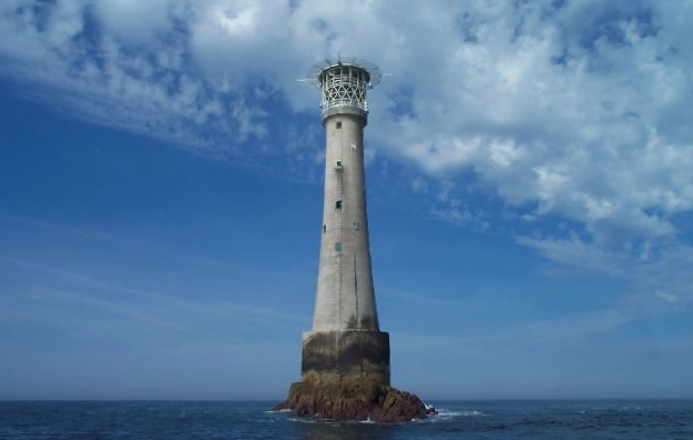 These rocks are one of the most western parts of Britain. The lighthouse is famous for marking the end of transatlantic boat challenges.